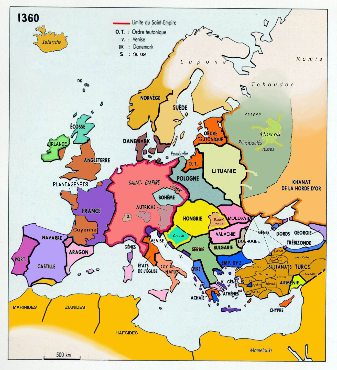 Historical map of Europe, year 1360